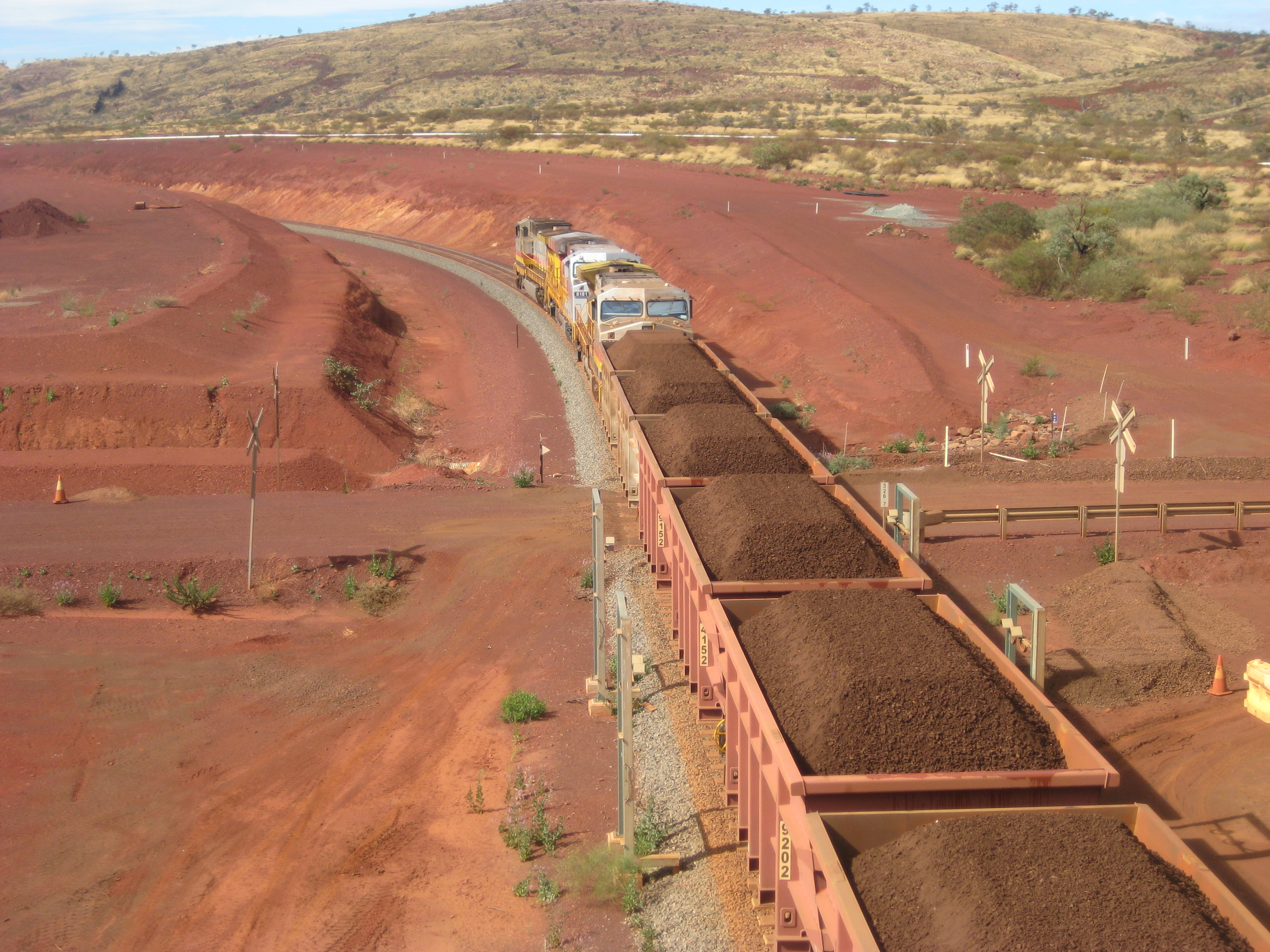 An iron ore train loading at the Brockman 4 mine, Western Australia.